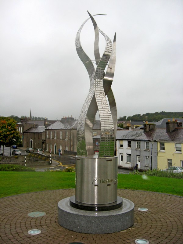 Public artwork, The Fairgreen, Westport/Cathair na Mart, near to Cathair na Mart, Mayo, Ireland. There are inscriptions in English & Irish recording that Westport was a winner of Ireland's Tidy Towns competition. It won in 2001, 2006 & 2008. M0084 : Public artwork (inscription in English), The Fairgreen, Westport/Cathair na Mart . M0084 : Public artwork (inscription in Irish), The Fairgreen, Westport/Cathair na Mart .